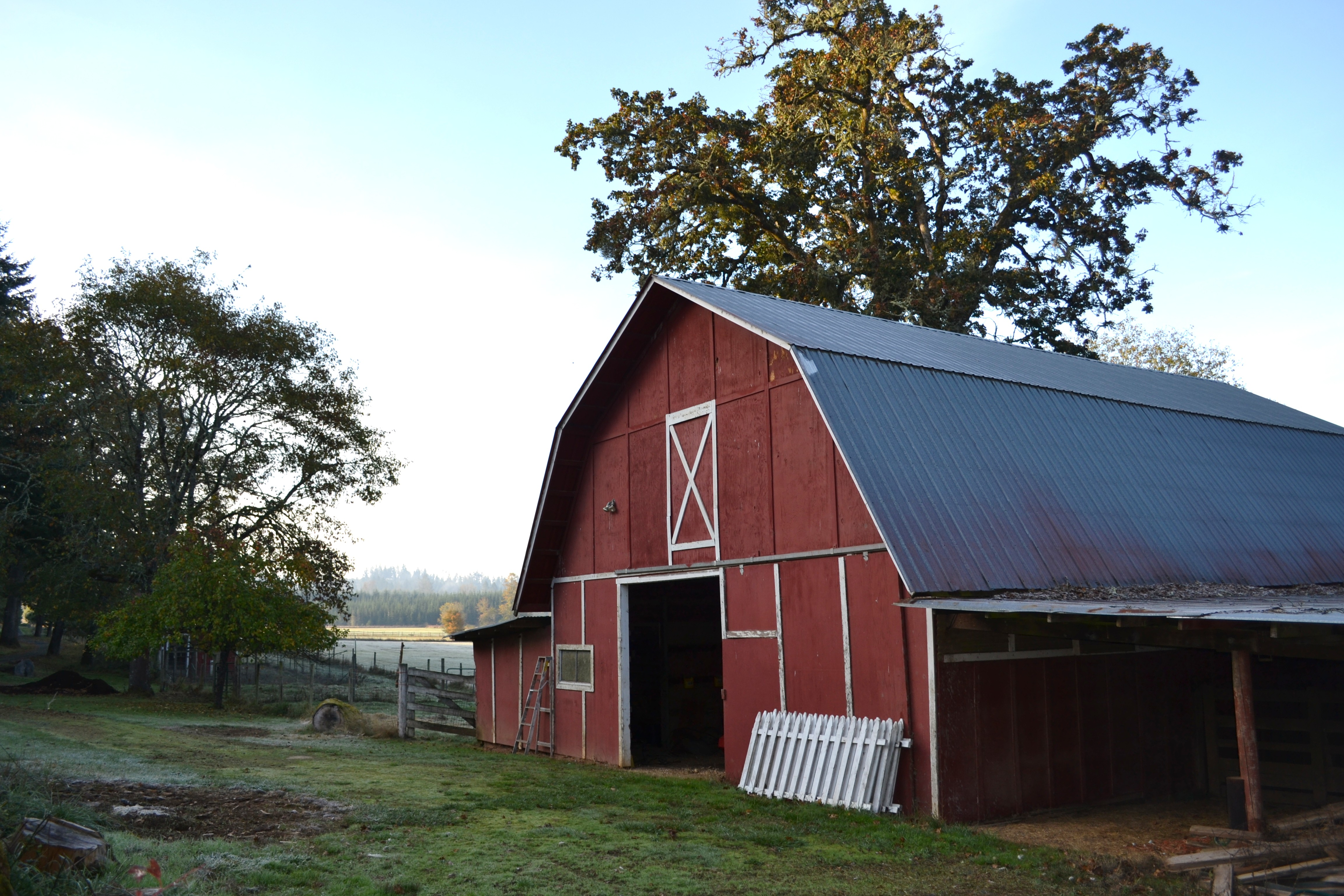 Charles C Fitch Farmstead (Veneta, Oregon)